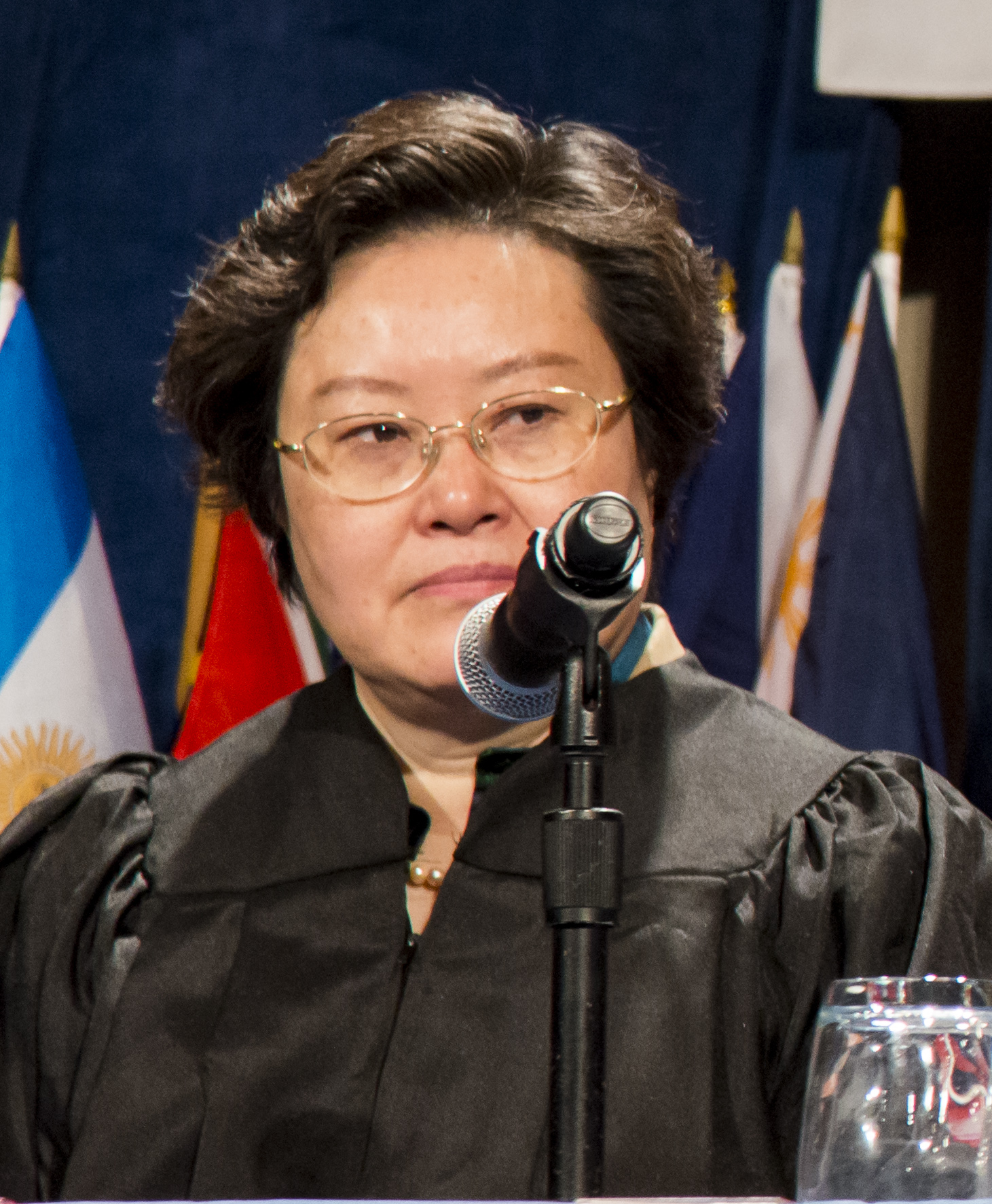 Xue Hanqin at the Jessup Moot final 2013